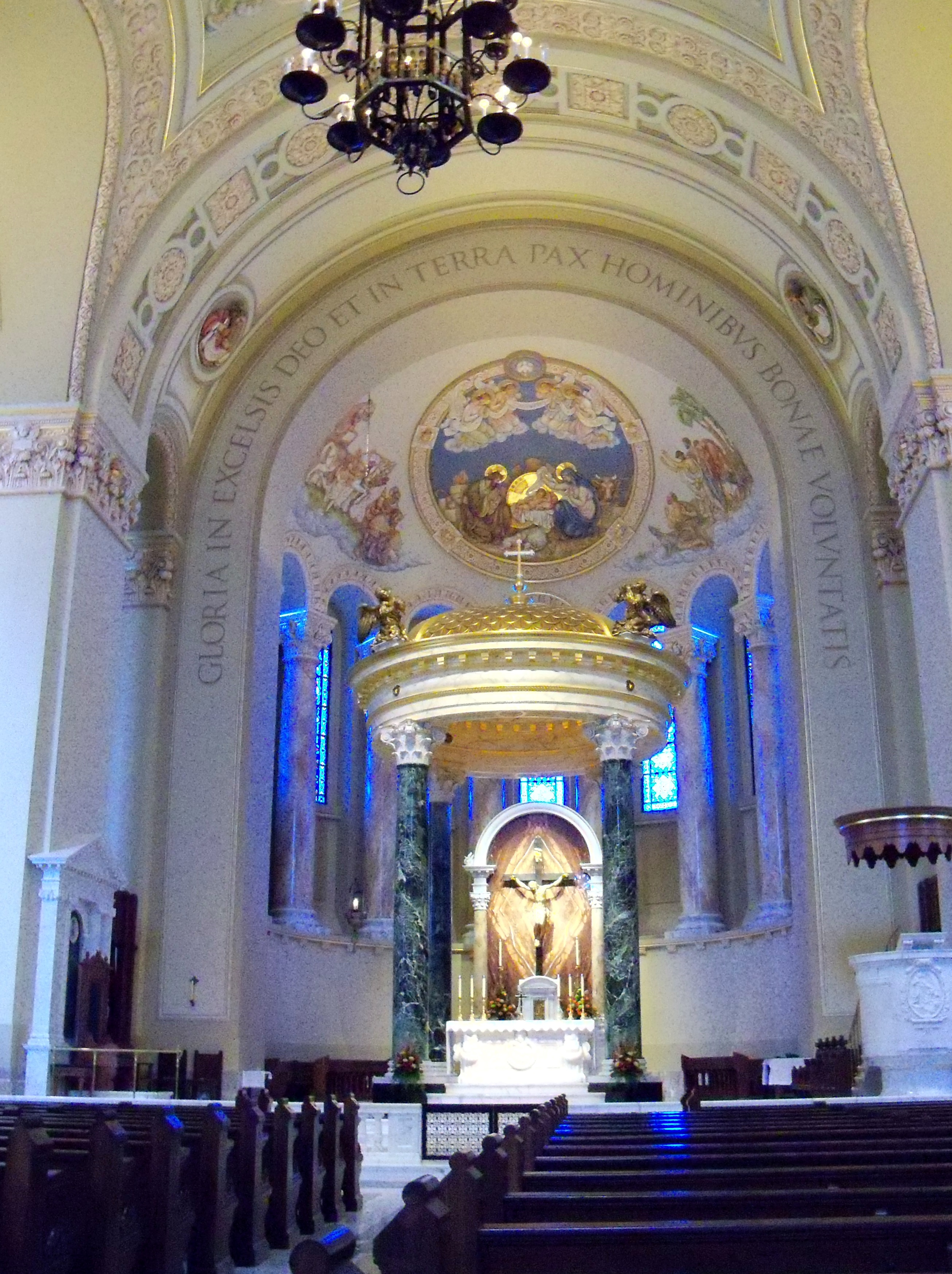 Main altar and apse of St. Joseph Cathedral in Sioux Falls, South Dakota, USA.